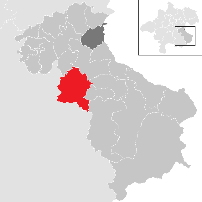 district Steyr-Land